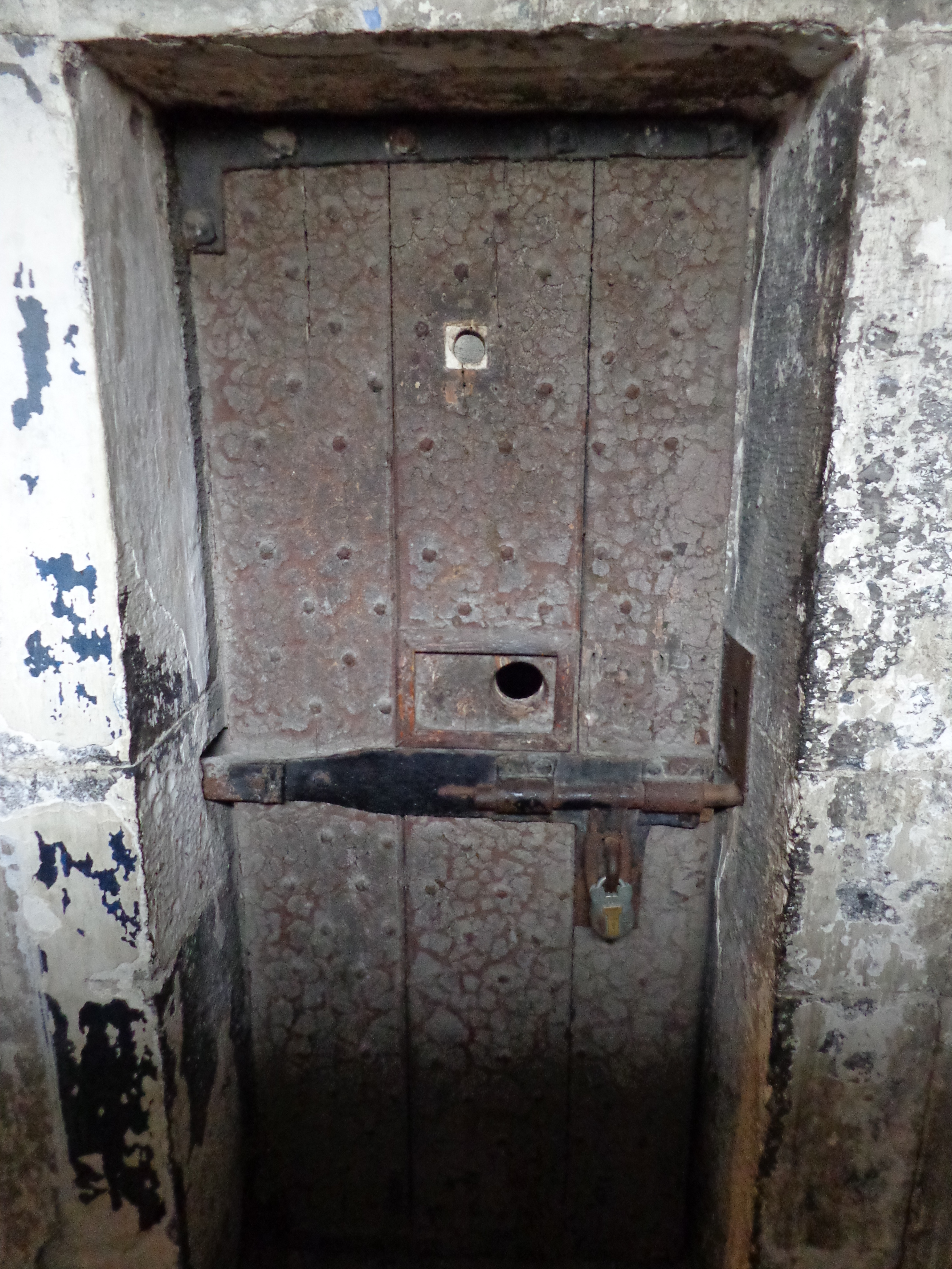 Kilmainham Gaol, Dublin